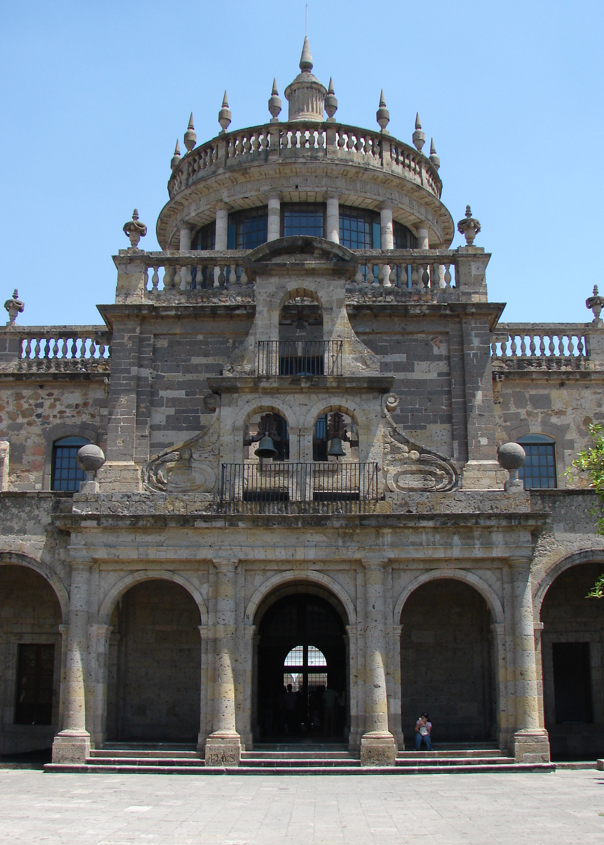 Facade main internal Cultural Center Cabins, in the city of Guadalajara, Mexico.